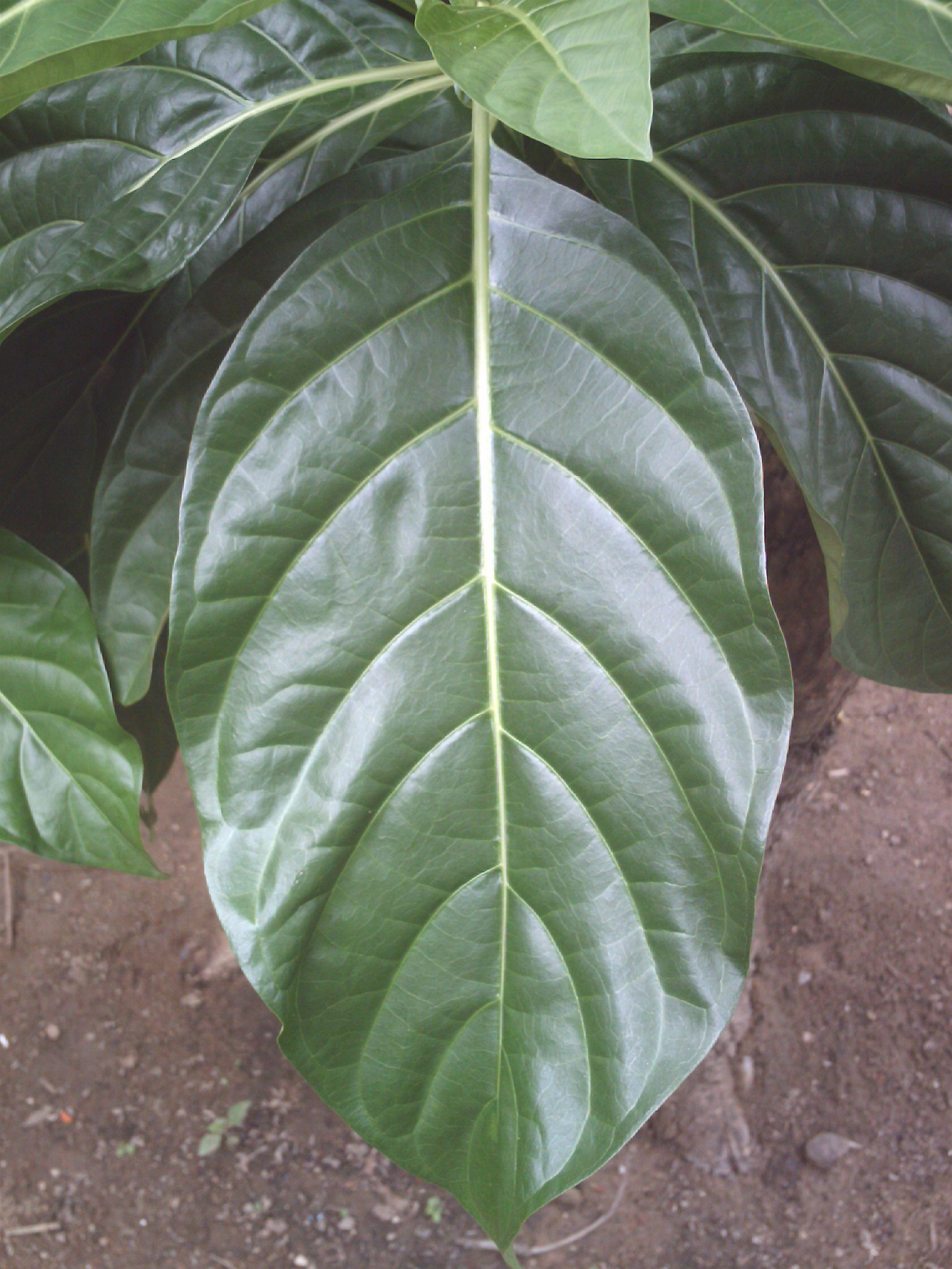 Morinda citrifolia, commonly known as Great morinda, Indian mulberry, Beach mulberry, Tahitian Noni, or since recently: Noni (from Hawaiian), Nono (in Tahitian), Mengkudu (from Malay), Nonu (in Tongan), and Ach (in Hindi), is a shrub or small tree in the family Rubiaceae. Picture From San Juan Bautista, isla de Margarita, Venezuela